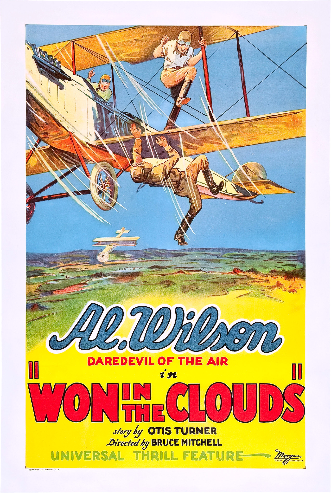 Poster for the 1928 film Won in the Clouds. There are no copyright marks on the item. At lower left is the Universal logo and Country of origin USA. At lower right is the Morgan Litho Company, Cleveland, logo-they printed the poster.